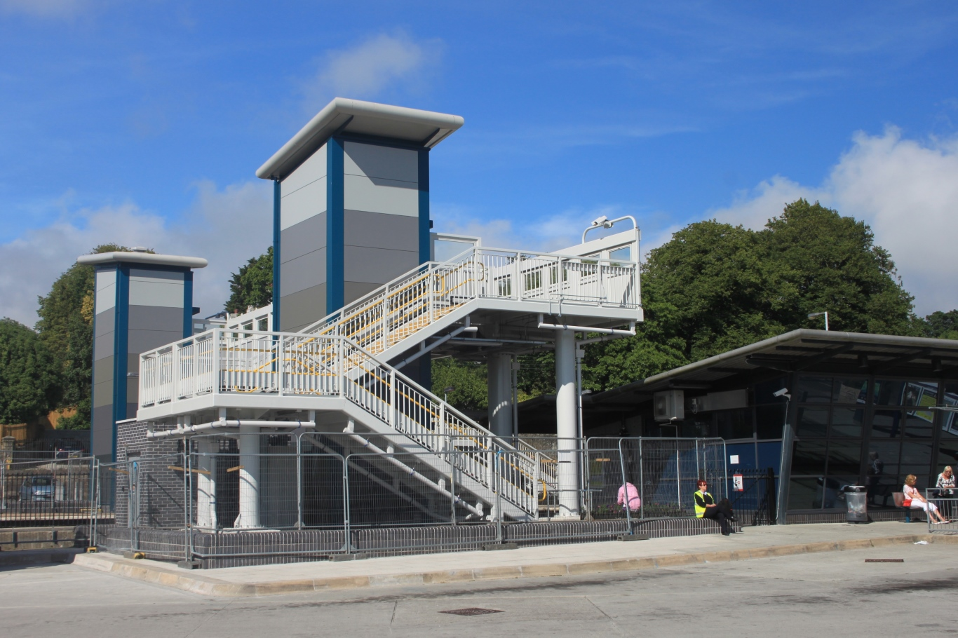 A new footbridge was built at St Austell railway station in 2015, wider and with lifts to replace the one which had been in use for more than 130 years.